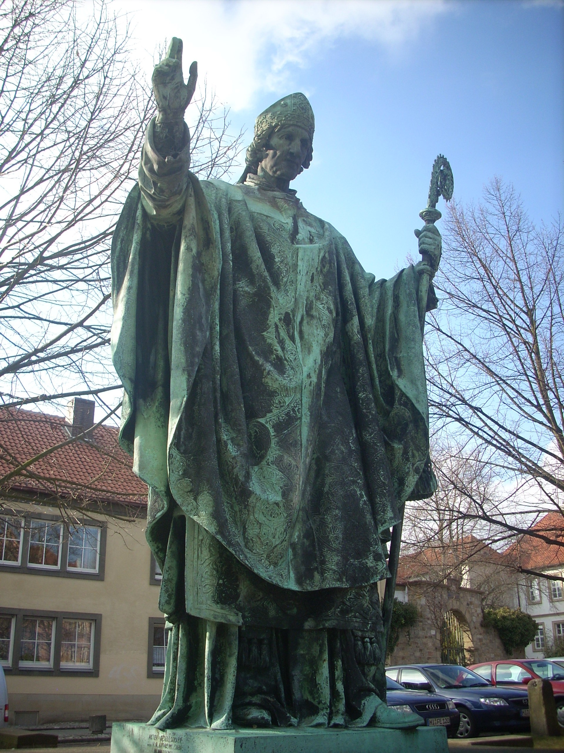 Hildesheim, Domhof, Statue of Bernward of Hildesheim